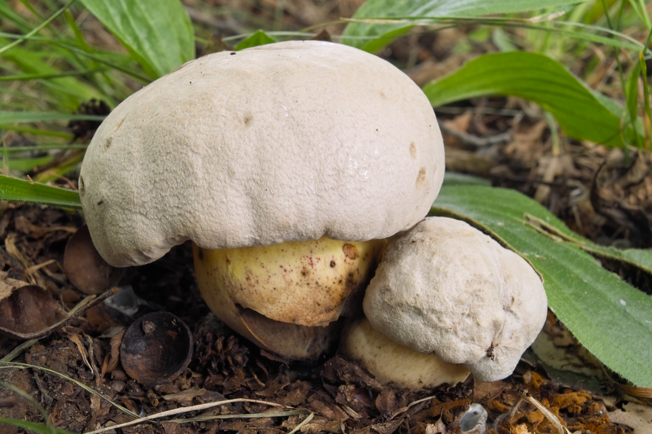 Boletus radicans, Vrbenské rybníky, Czech republic